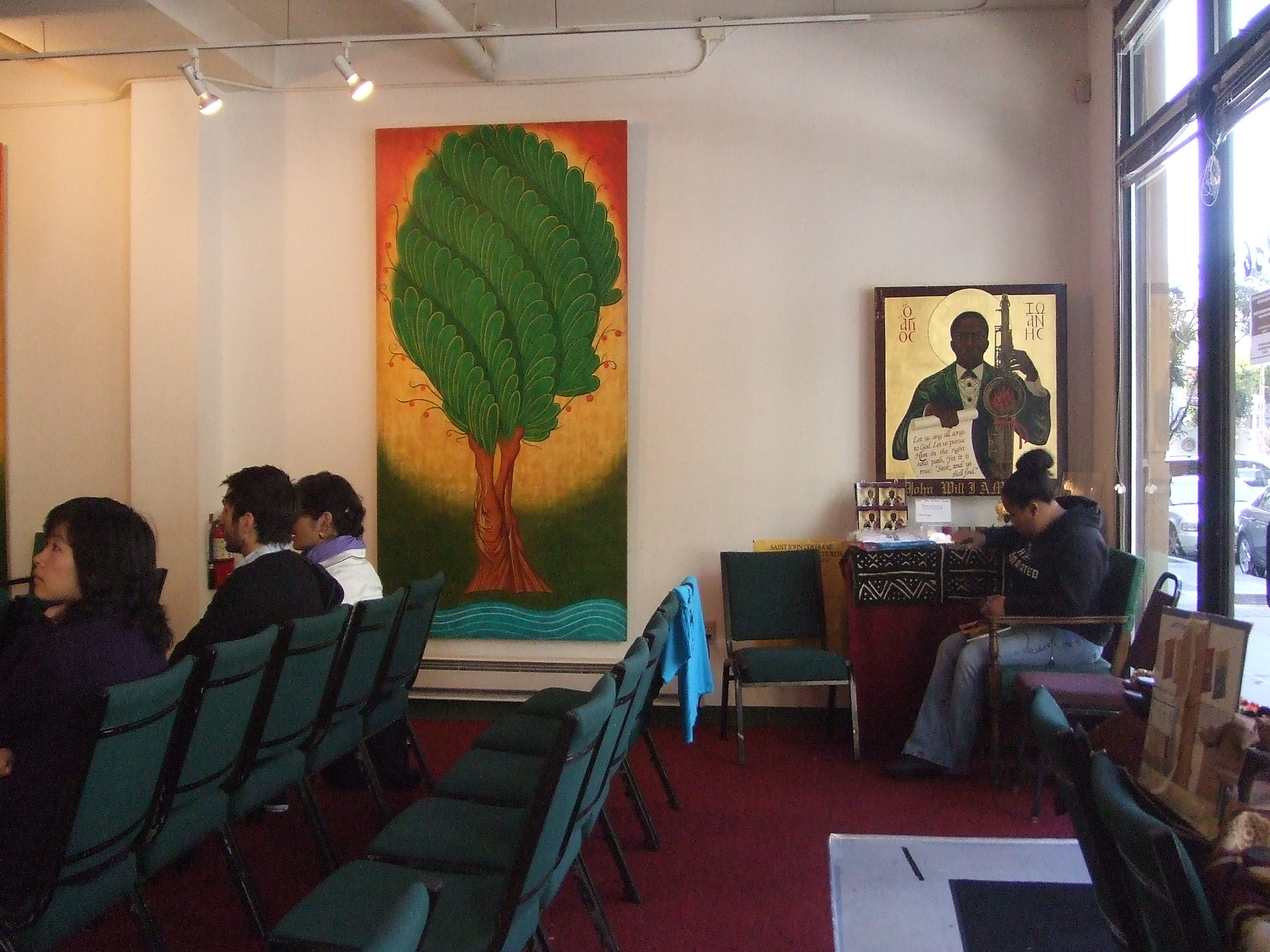 coltrane church san francisco